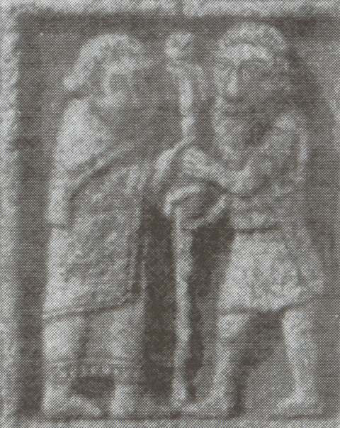 The lower panel of the east face of the Cross of the Scriptures at Clonmacnoise. The figures are a cleric (left), perhaps Saint Ciaran, and king (right), perhaps Diarmait mac Cerbaill, shown planting a stake.